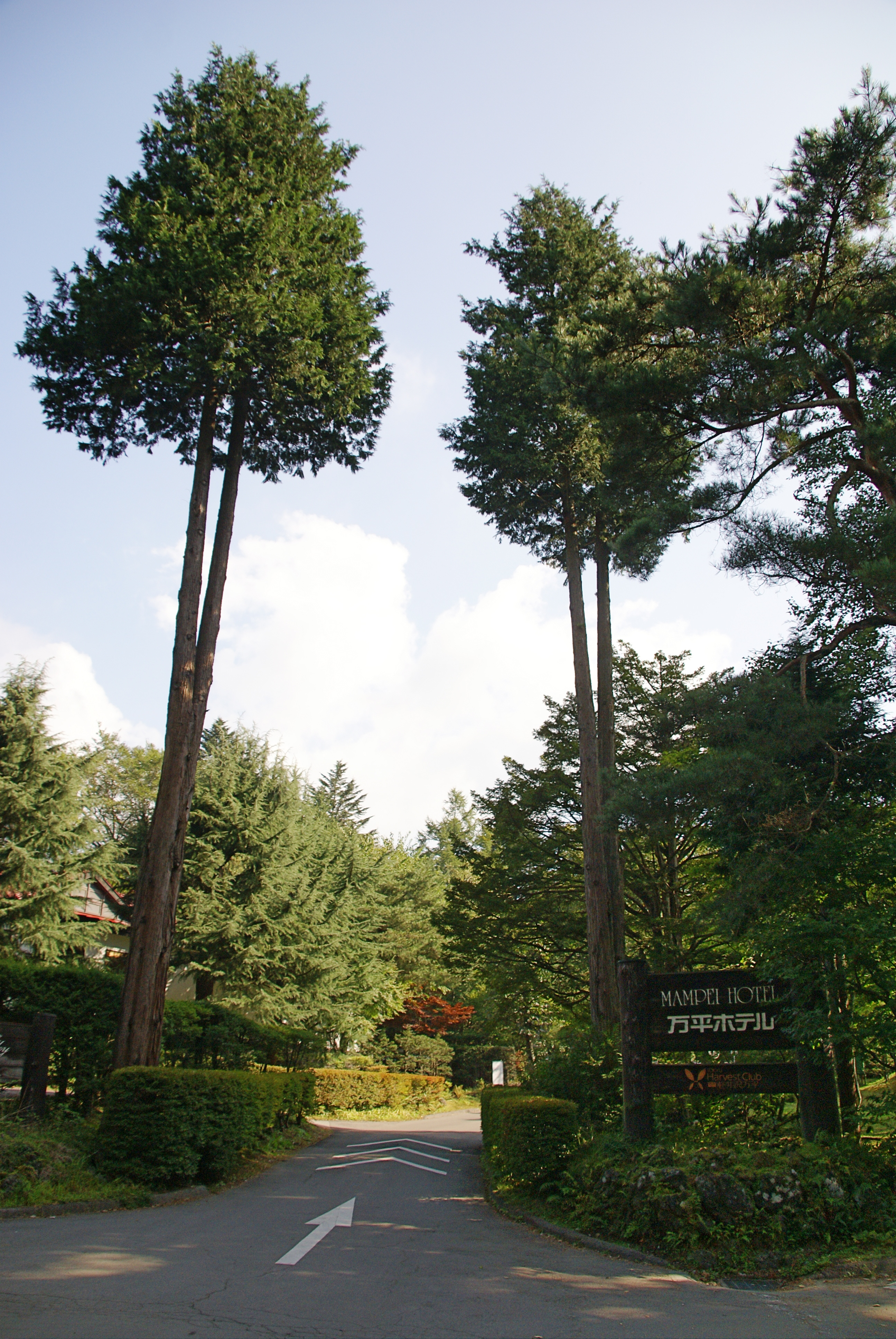 Manpei Hotel in Karuizawa, Nagano prefecture, Japan